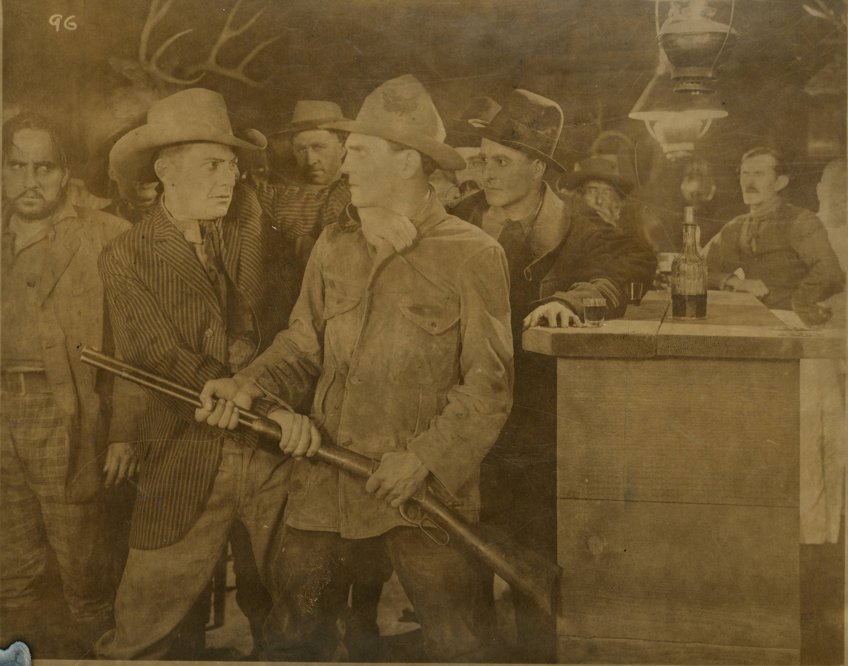 A scene from The Confession (1920), which played at the Colonial Theater, Seattle. Includes Joseph Dumont (William Clifford, at far left) and Jim Creighton (Barney Furey, in striped coat). Date stamped May 22, 1920. Subjects: motion pictures, actors